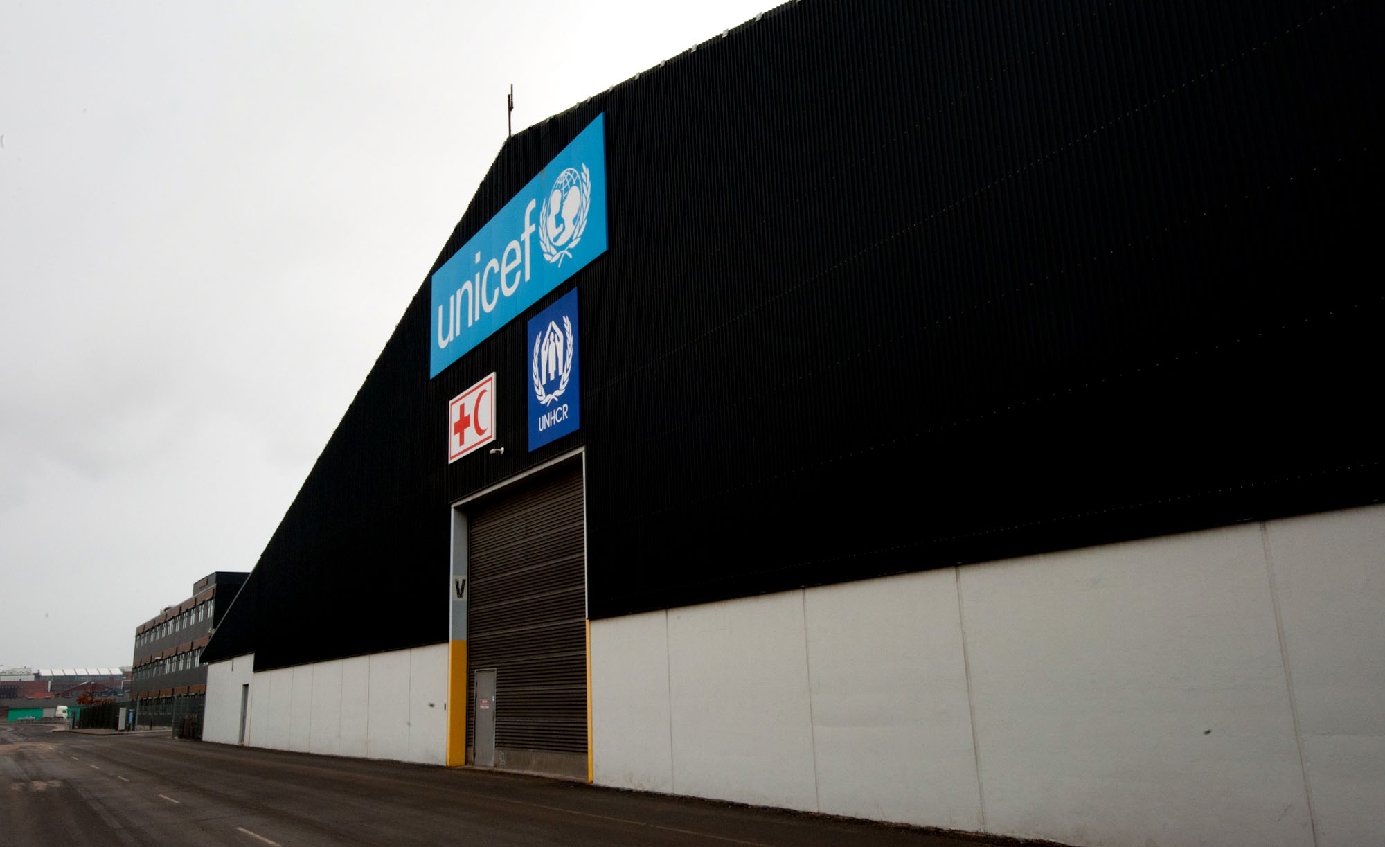 UNICEF world warehouse in Copenhagen